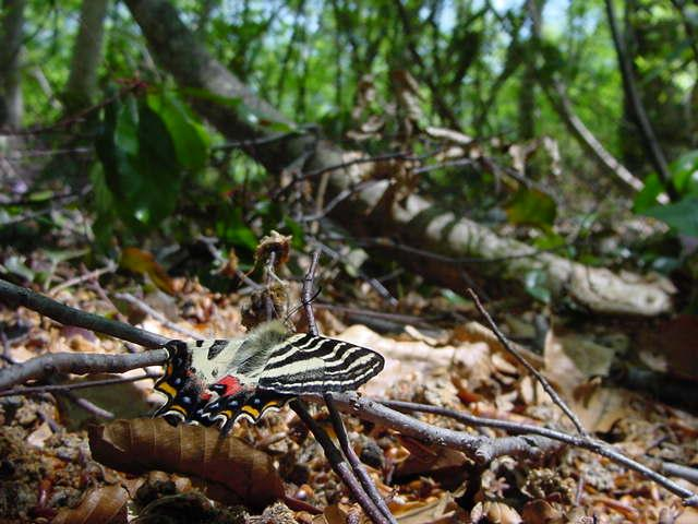 Gifu butterfly in the Buna Woods